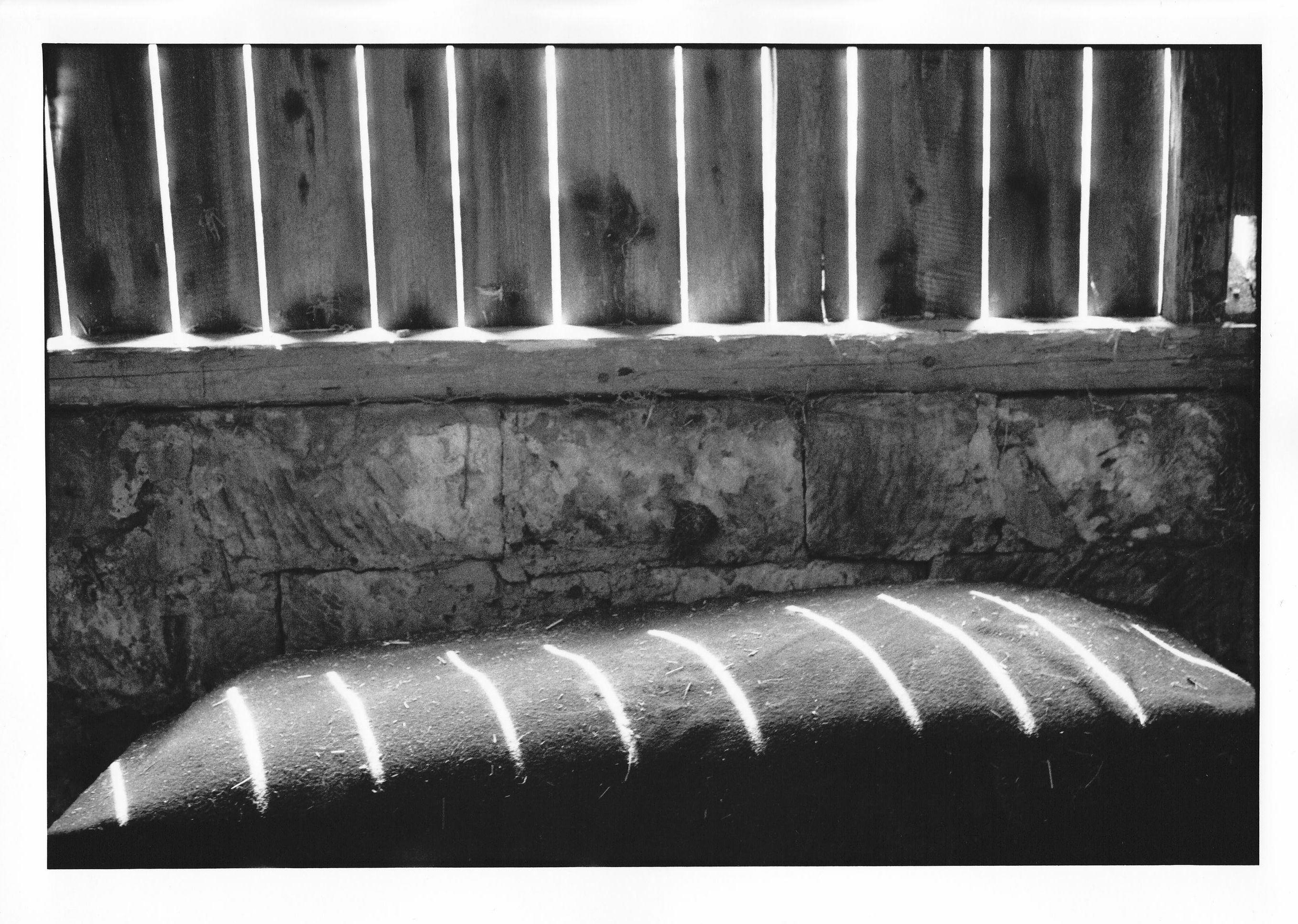 Ve_stodole, Malá_Lhota, IV.